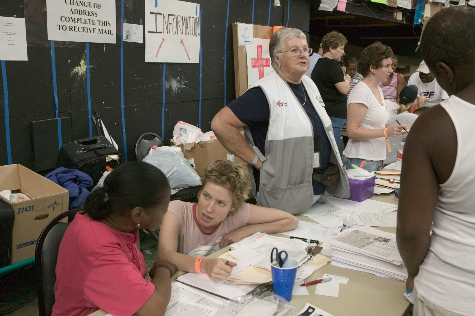 Houston,TX.,9/5/2005--The Red Cross continues to assist the 18,000 hurricane Katrina survivors that are housed in the Red Cross shelter at the Astrodome and Reliant center with emergency needs. FEMA photo/Andrea Booher